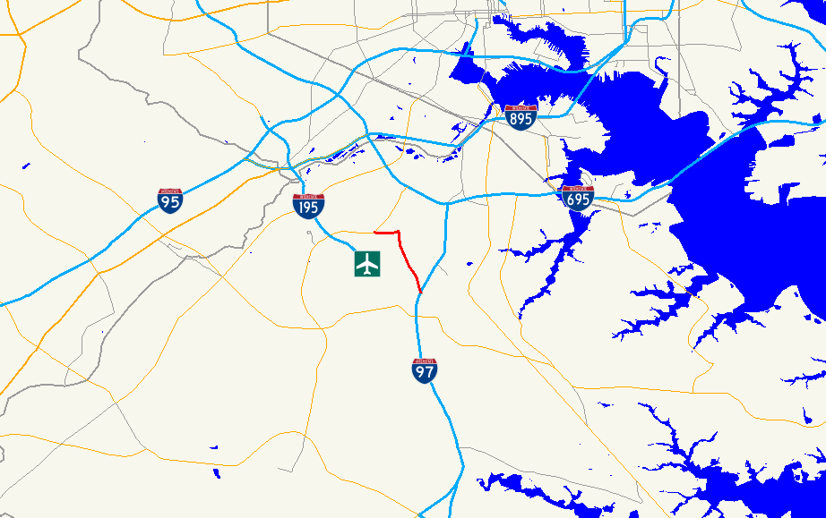 Map of Maryland Route 162